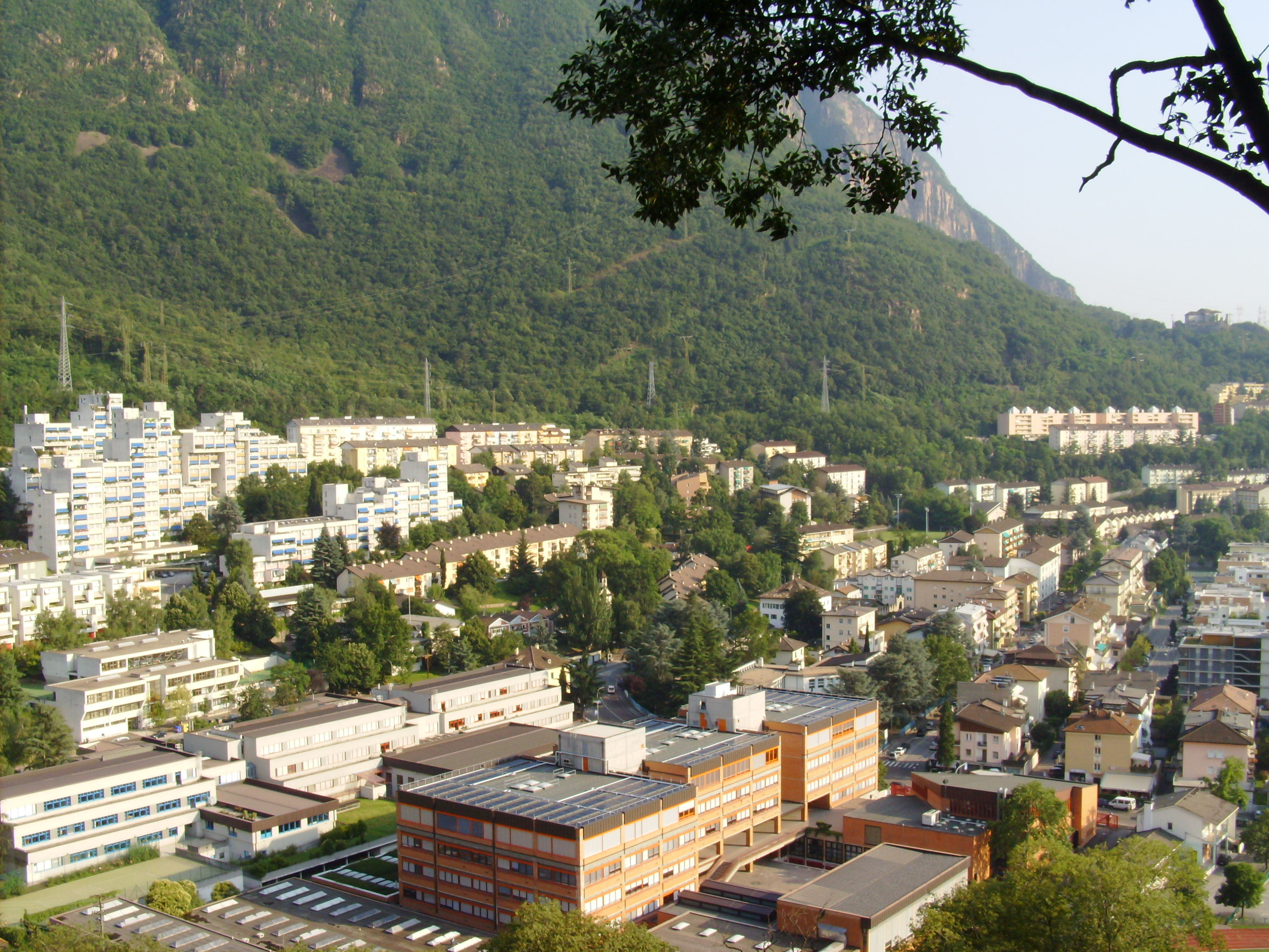 Bolzano/Bozen, city district of Aslago/Haslach